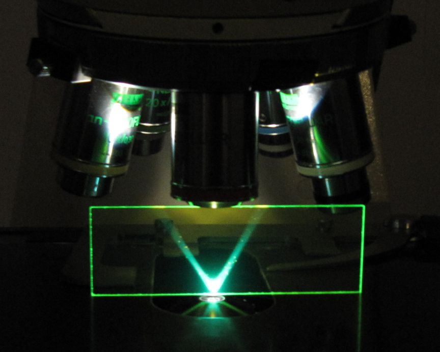 Illumination cone for dark field microscopy on an upright microscope. Illumination visualized with a colored object slide. The Illumination was actually produced with a phase contrast ring (Ph3).